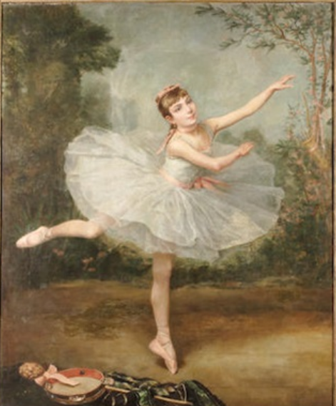 L'Entrée dans la danse [An Arabesque], oil on canvas, dim.: 176.5 x 144.8 cm. This painting was exhibited at the Salon des artistes français in 1880. Signed P. J. Robert. Sold in auctions June 4, 2019.